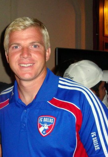 Phil Hartman FCD